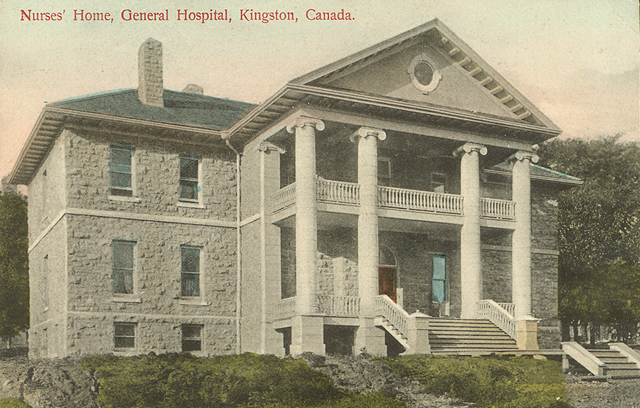 The Ann Baillie Building at Kingston General Hospital in Kingston, Ontario, Canada. A former nurses residence, the building now houses the Museum of Health Care.